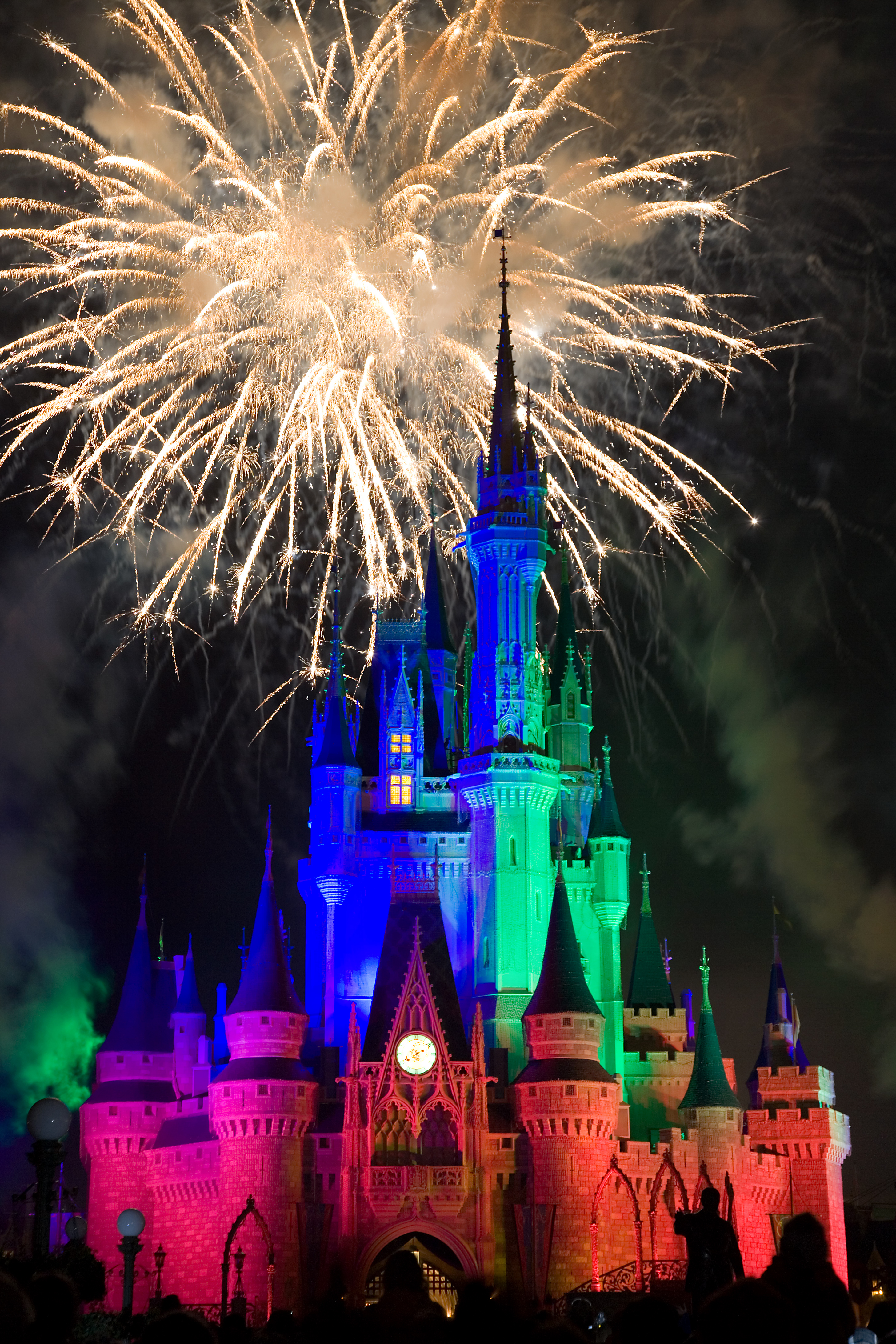 Fireworks show over Cinderella Castle at closing hour. Disneyworld, Orlando 2010